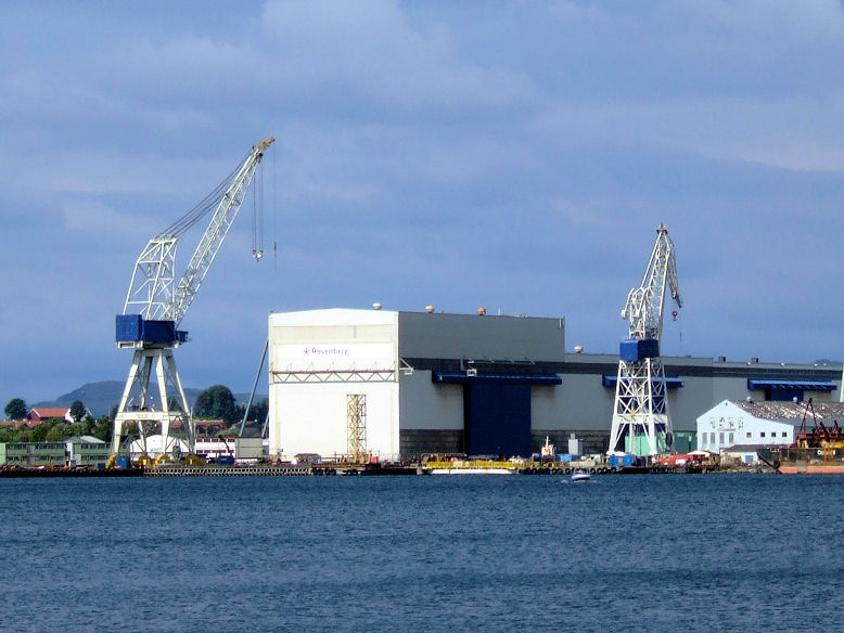 Rosenberg Verft, Stavanger, Norway. Offshore supply company.